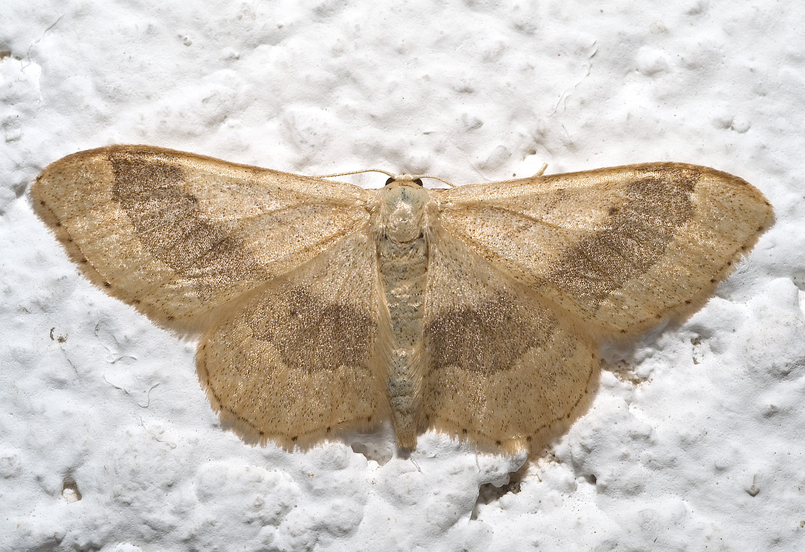 Please report references to kulacgmx.at.